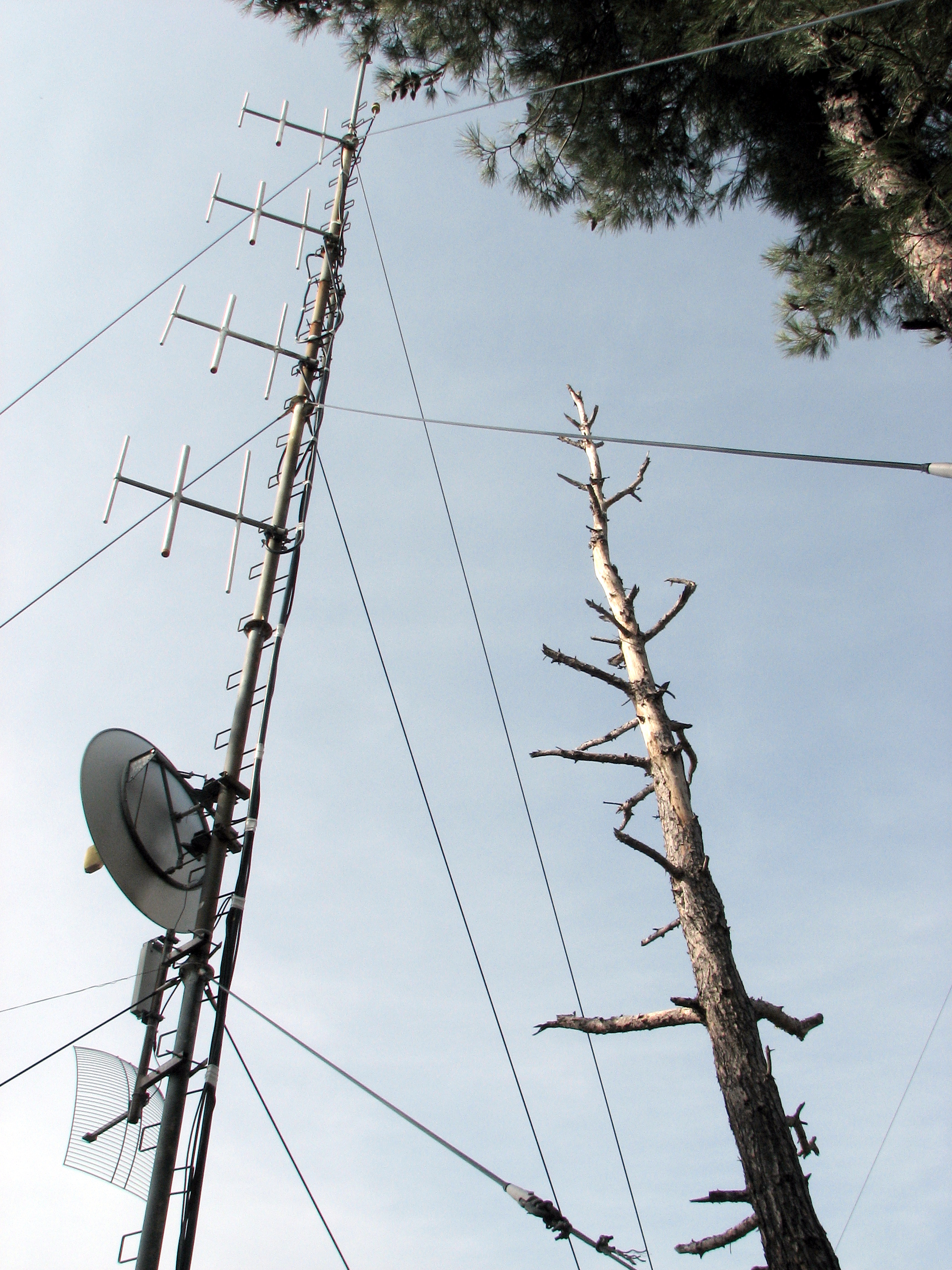 Antenna tower used for radio broadcasting. From bottom to top, a wire frame parabolic dish, a wide beam sectored antenna, another parabolic dish and a collinear array of four dipoles.